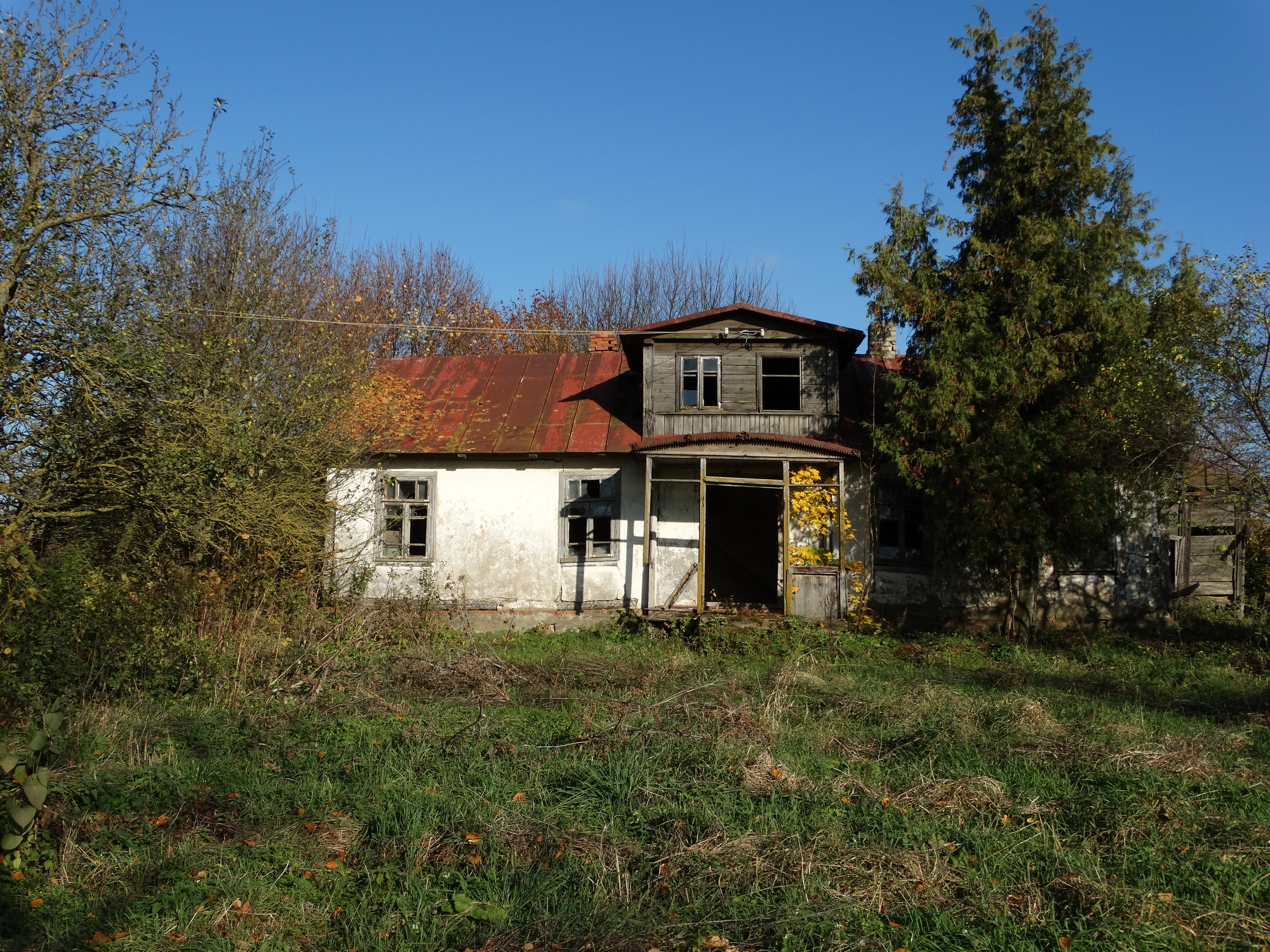 Kesteniai, Kalvarija Municipality, Lithuania